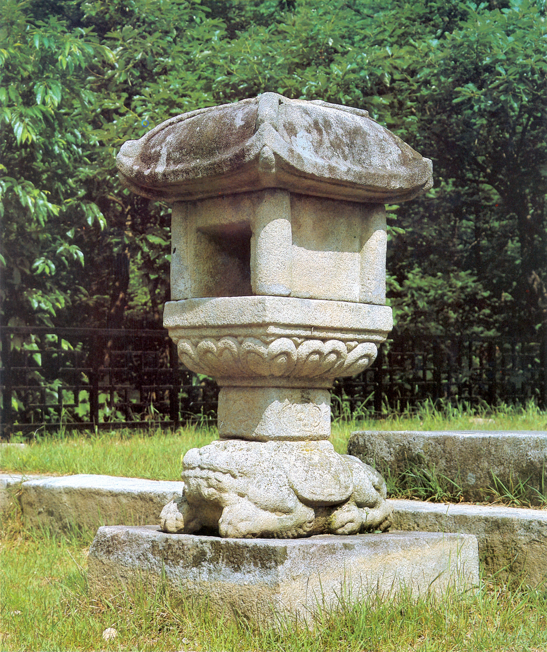 Lion Stone Lantern at Cheongnyongsa temple site in Chungju, Korea